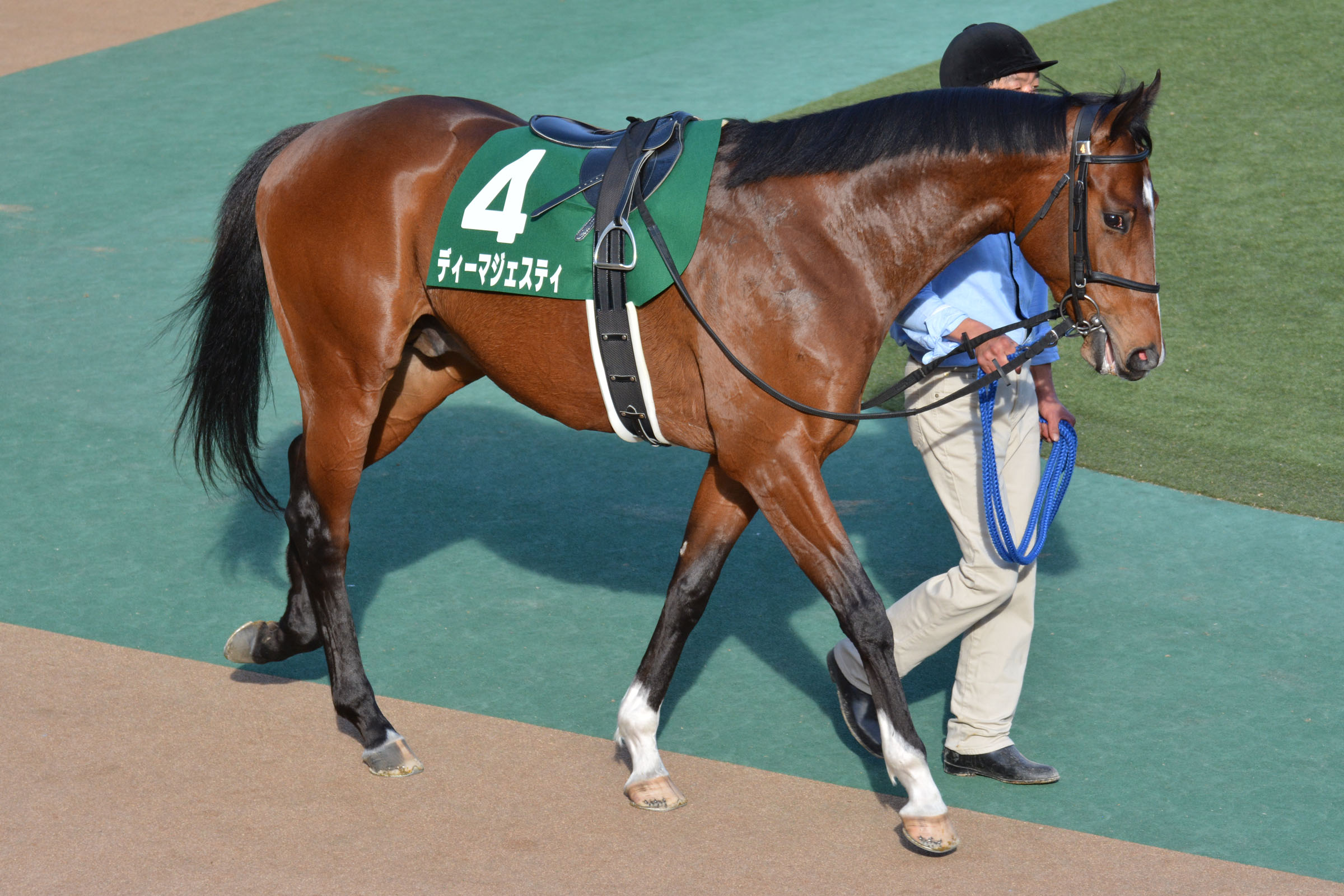 Japanese racehorse Dee Majesty at Tokyo racecourse(2016-02-14 The 50th KYODO NEWS SERVICE HAI).